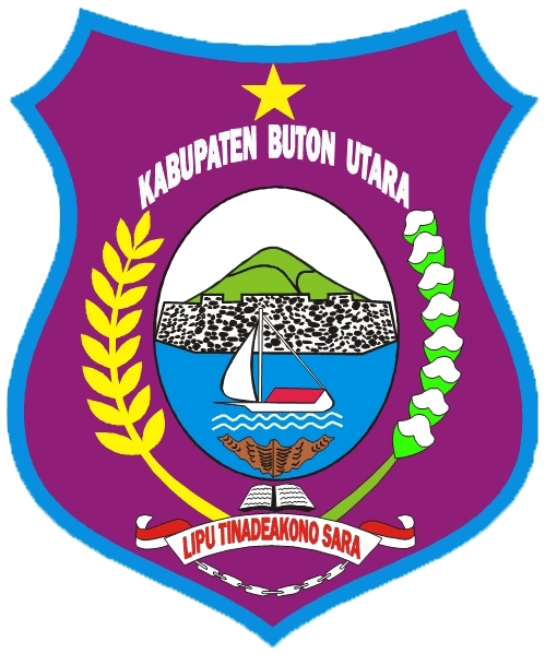 Seal of North Buton Regency